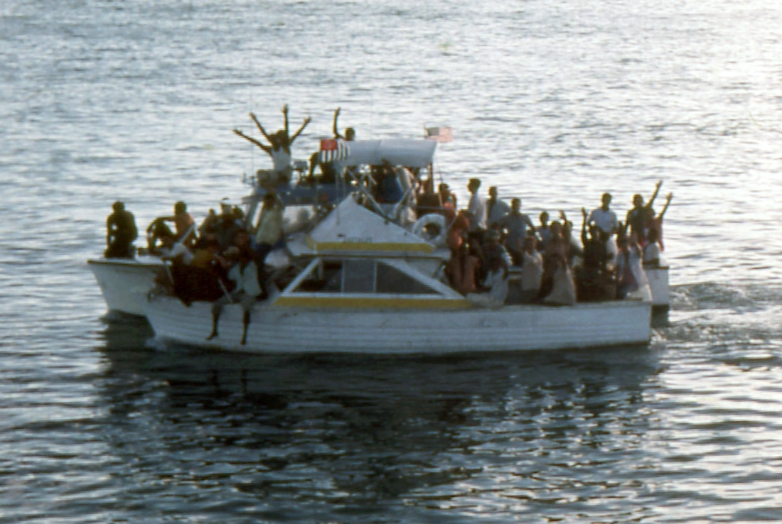 Two overloaded boats in Key West Harbor during the Mariel Boatlift in 1980. Photo by Raymond L. Blazevic.